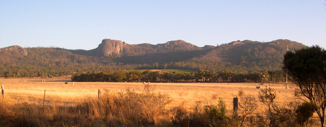 Porongurup National Park, Western Australia. Evening view, looking south toward range from Mt Barker-Porongurup Road. Photo by Andy Dolphin.